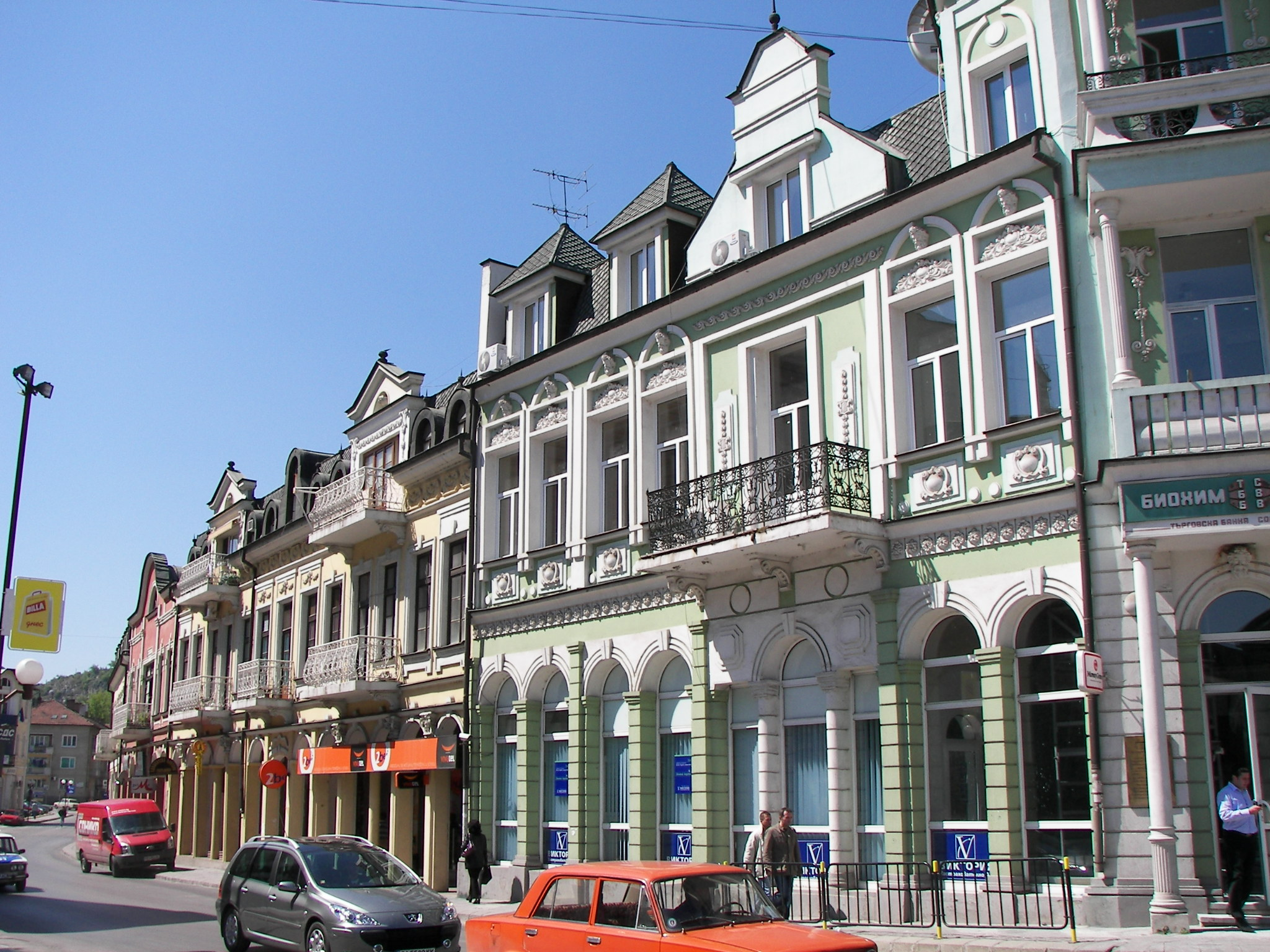 Lovech